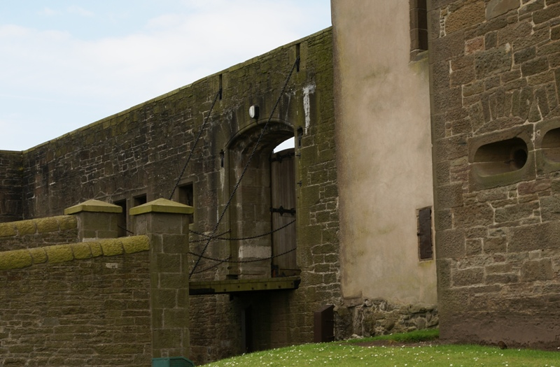 Broughty Castle, Dundee, Scotland - bridge